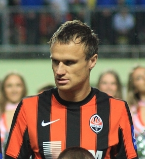 Vyacheslav Shevchuk